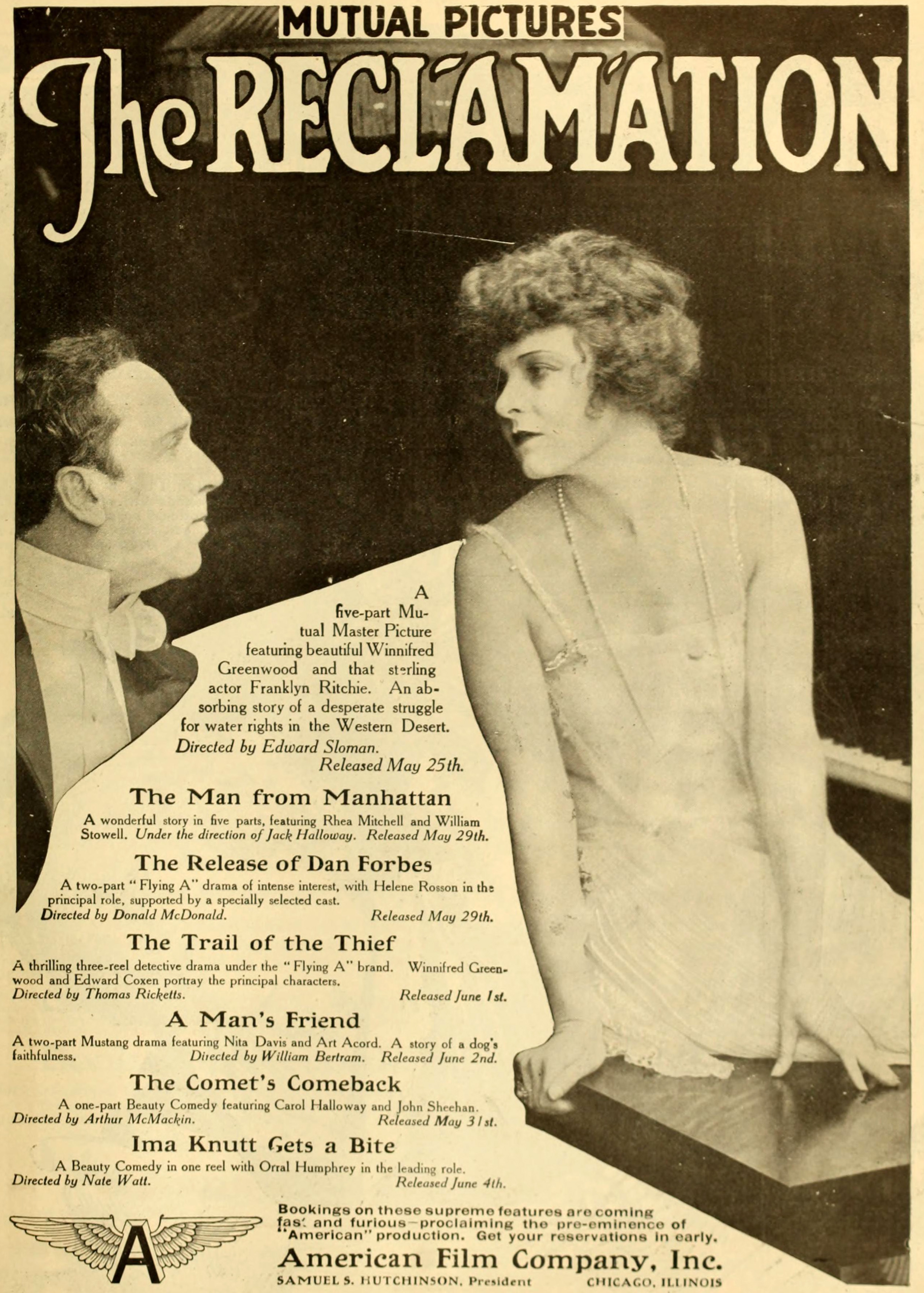 Advertisement in The Moving Picture World for the American film The Reclamation (1916).